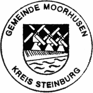 Seal of the municipality Moorhusen in Schleswig-Holstein, Germany